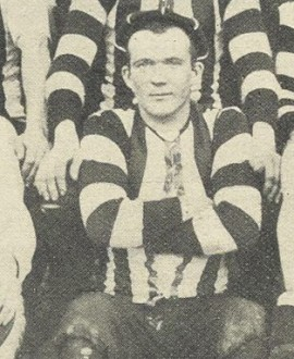 Photograph of Peter Martin from 1901-1902